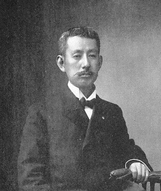 Motoakira Mouri